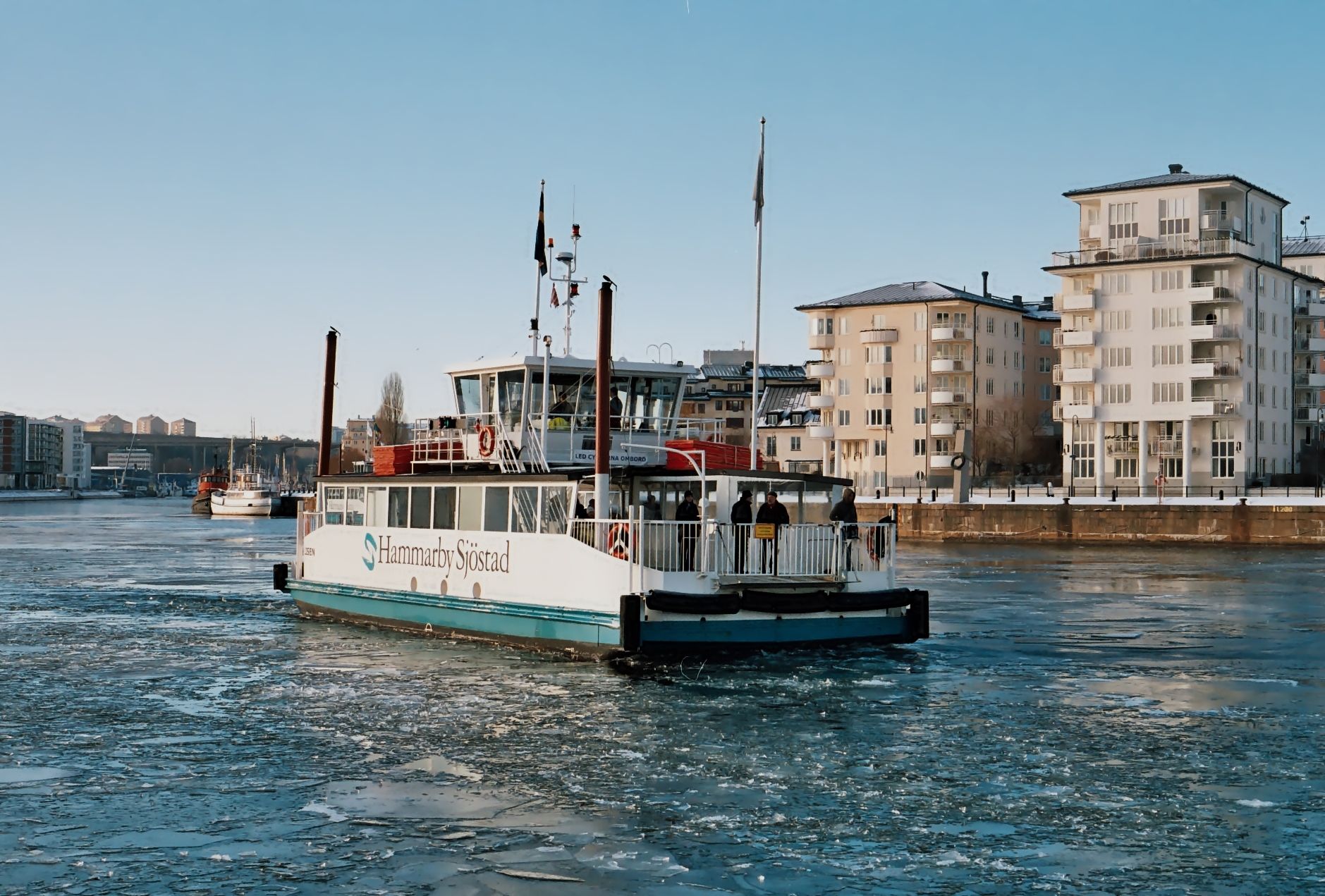 M/S Lisen